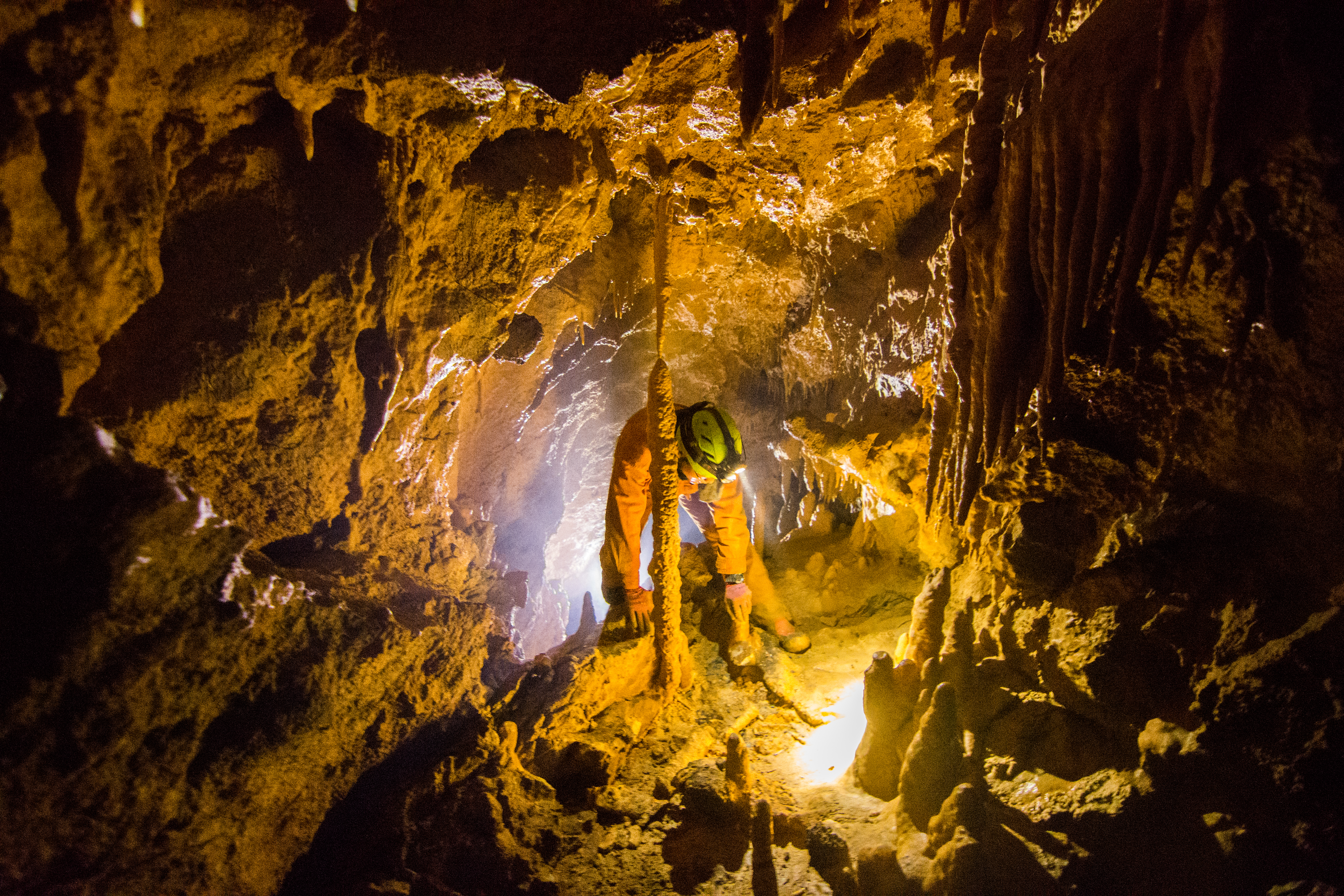 Baba-mon, the branch rich in speleothems in Kawachi no Kaza-ana.